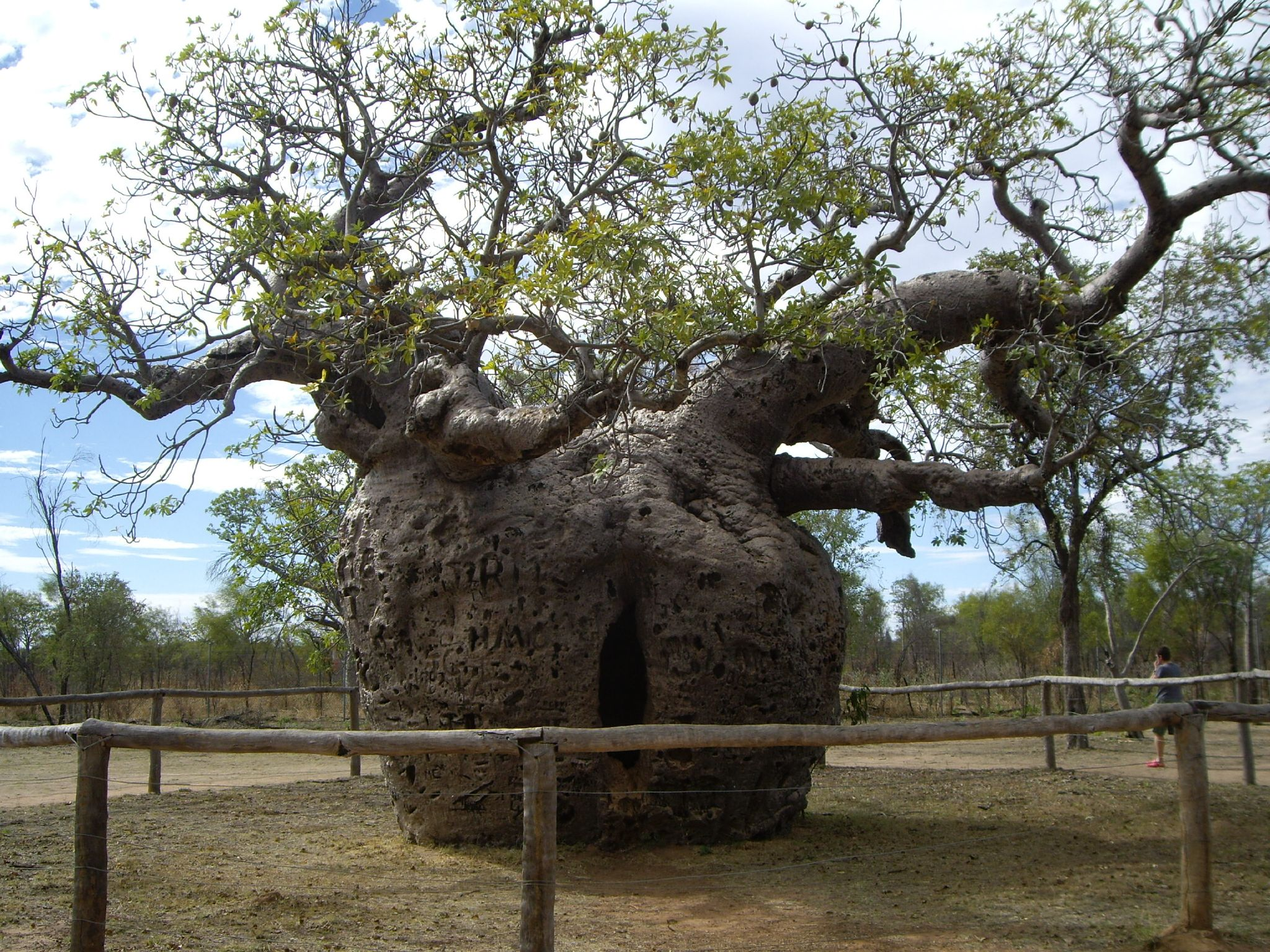 This is a photograph of the Prison Boab Tree, located about 4 kilometres south of Derby, Western Australia. In the 1890s it was used as a lockup for Indigenous Australian prisoners on their way to Derby for sentencing. It is now a tourist attraction.